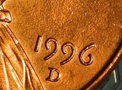 Detail of hanging numerals on a Lincoln penny